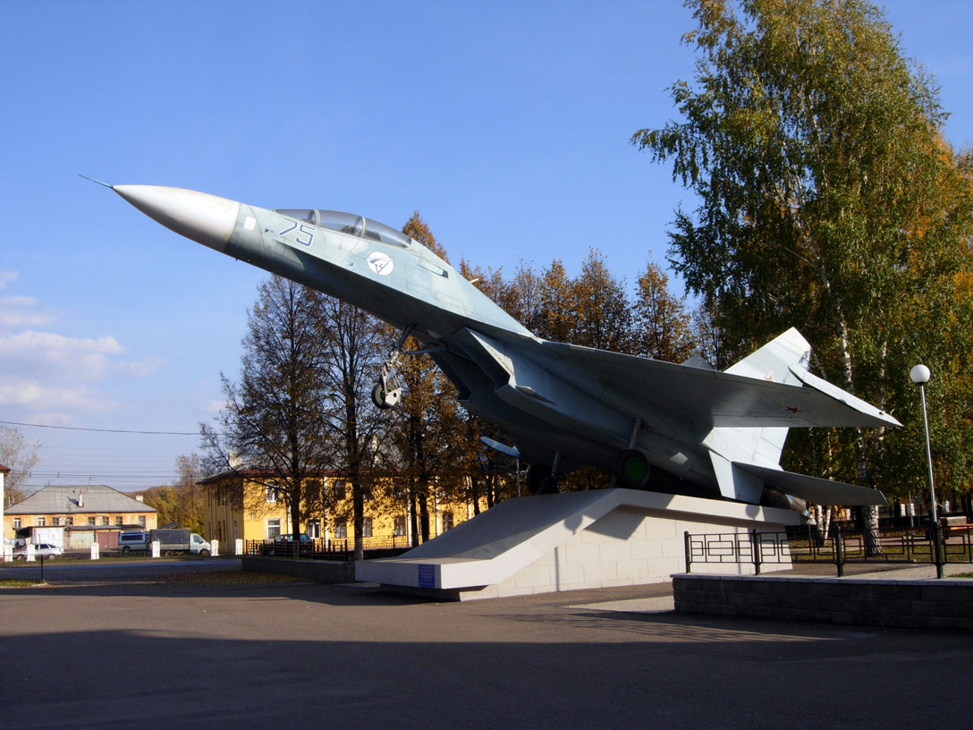 Su-27 near UMPO (Ufa)